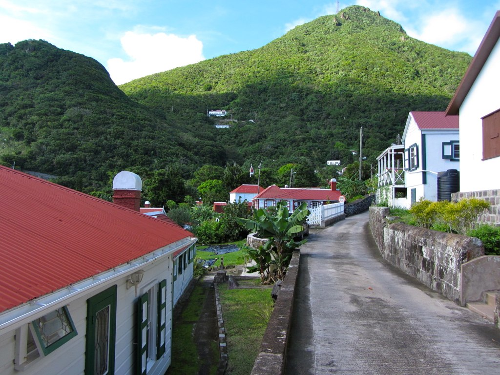 Narrow streets of Windwardside with Mount Scenery.